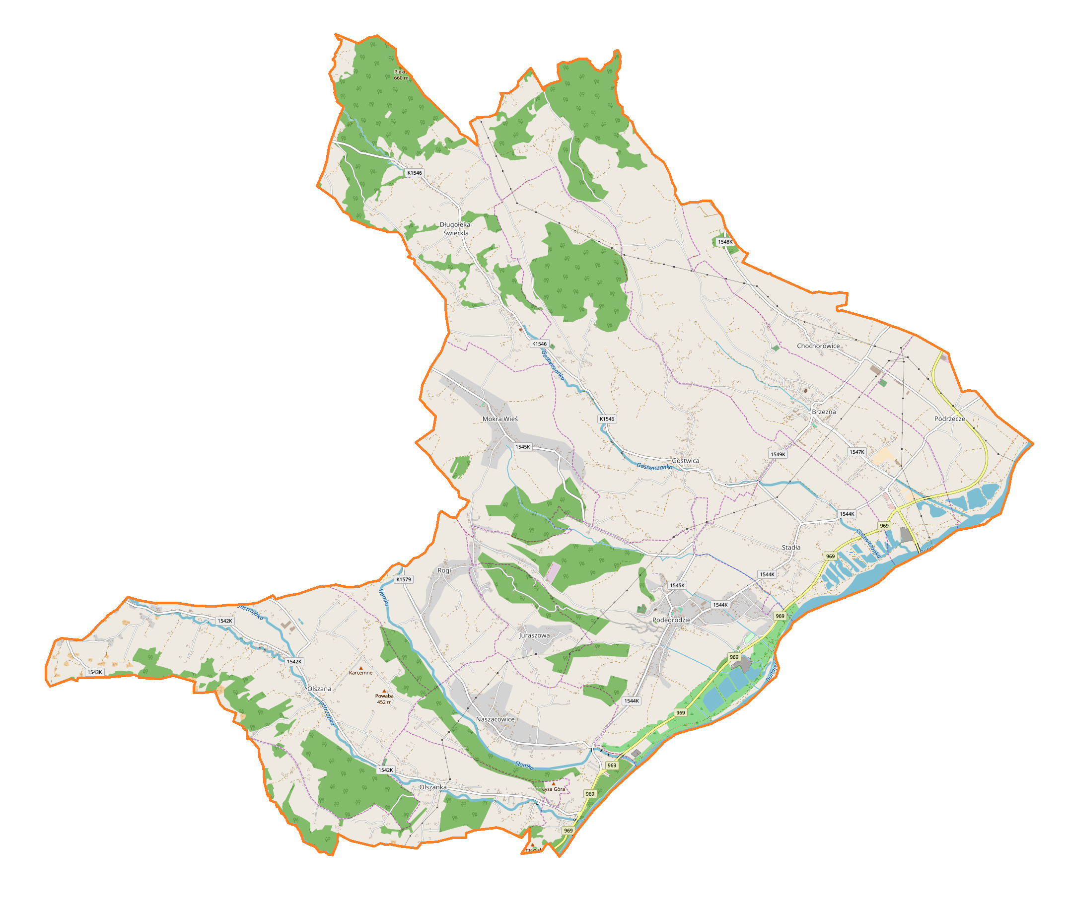 Location map